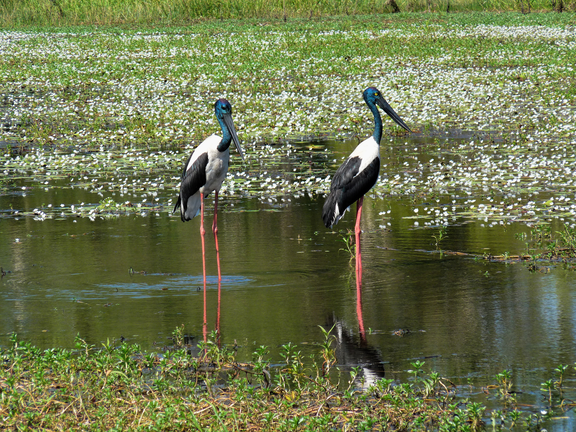 Taken from a boat on the Yellow Water Billabong, which is located in the South Alligator River Floodplain in Kakadu NP, Australian Northern Territory.